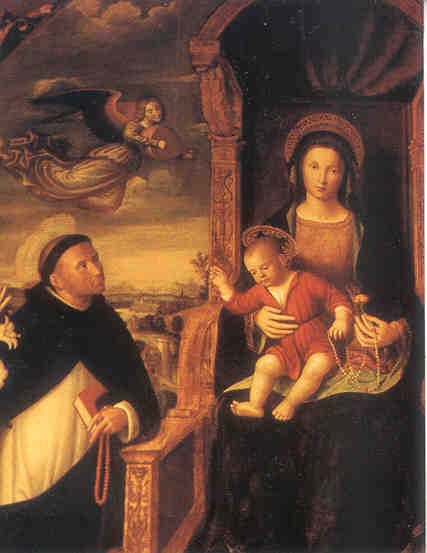 Dominique recevant le Rosaire